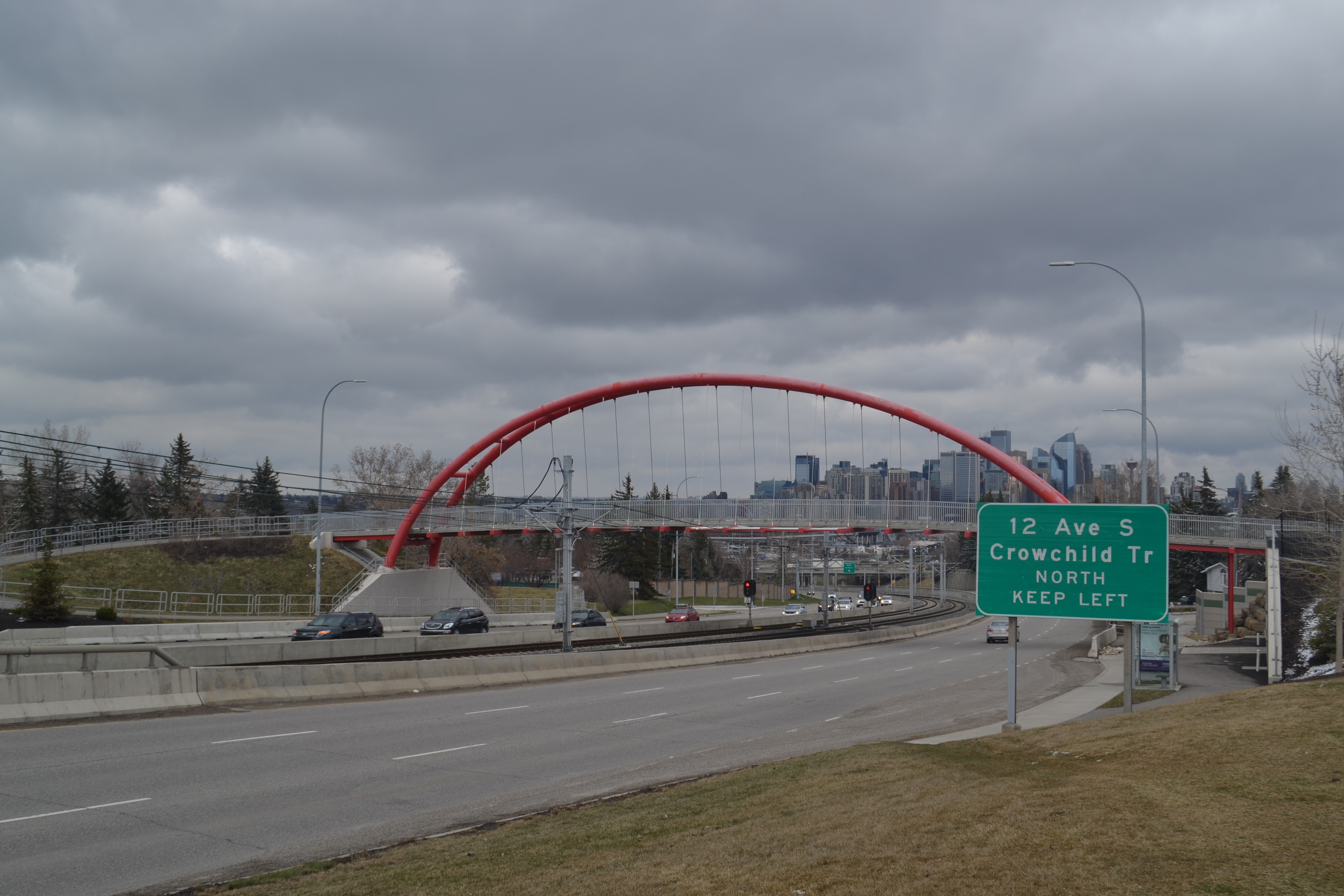 Calgary, April 2017 (9)